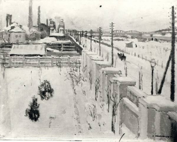 Title of object: A Winter Landscape Author / School / Workshop: Trojanowski Edward (1873-1930) Date of creation: before 1922 Material: Canvas Technique: Oil Signature: b.r.: E TROJANOWSKI Dimensions Height: 50.00 cm Width: 61.00 cm